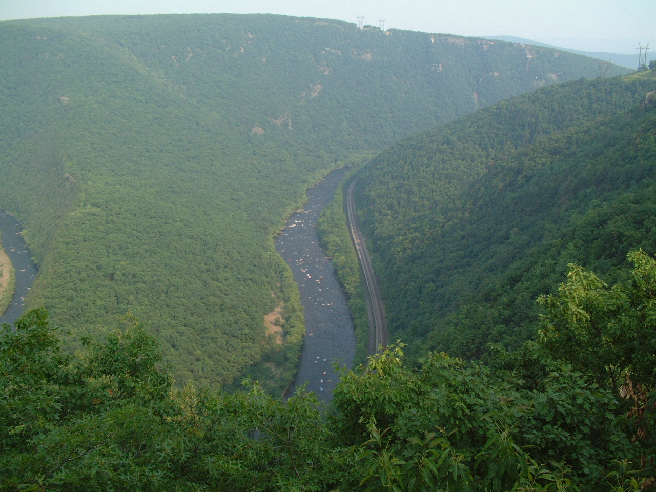 Photograph by Seth Werkheiser ( The Lehigh River near Jim Thorpe, Pennsylvania, 24 June 2002. From Creative Commons licensing info from "Additional Information" on source page.